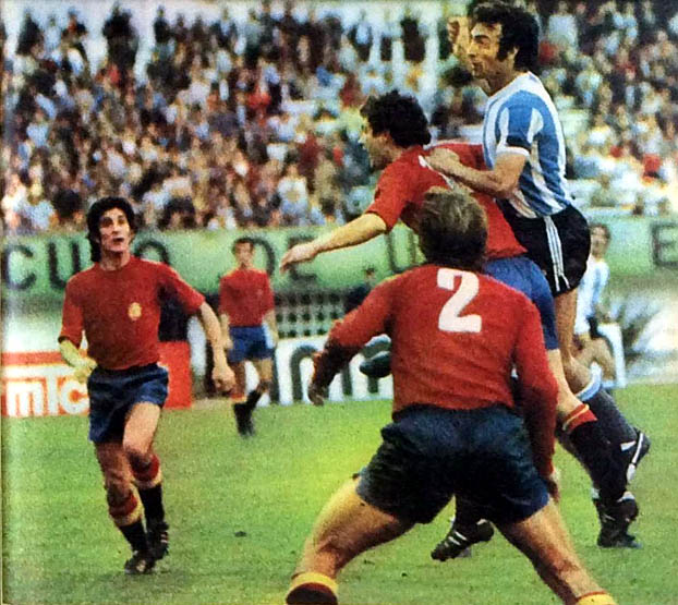 Scene of the match Argentina v. España at River Plate: Rogel heads the ball to the goal, scoring for the local team.